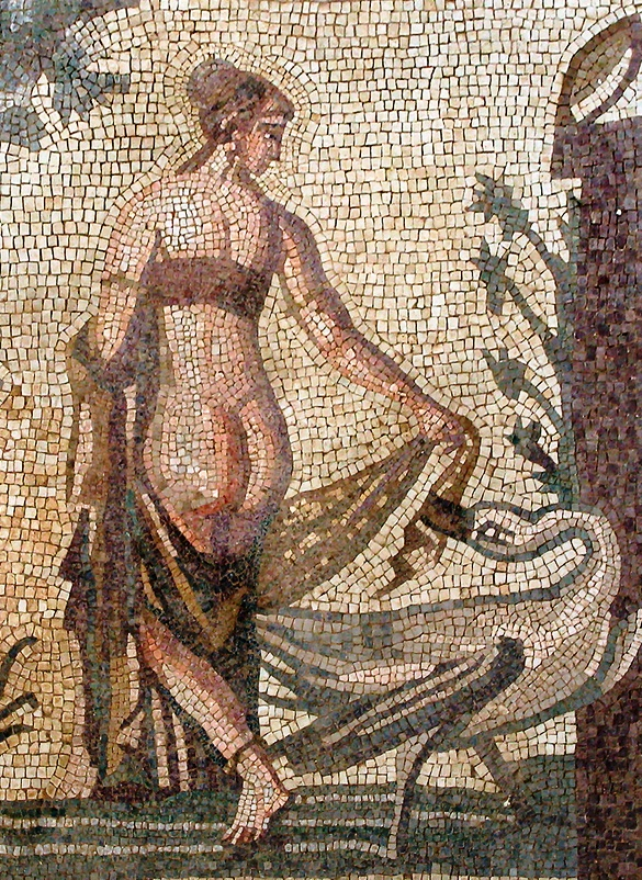 Tile mosaic depicting Leada and the Swan from the Sanctuary of Aphrodite, Palea Paphos; now in the Cyprus Museum, Nicosia